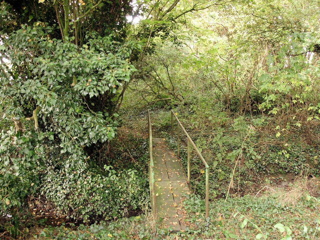 Footbridge in Worsley Covert